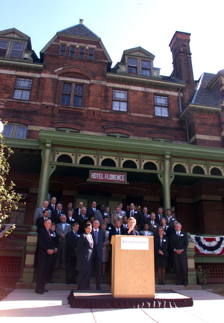 The First Lady, accompanied by state, city, local and community representatives, addresses the Pullman community outside the Hotel Florence.